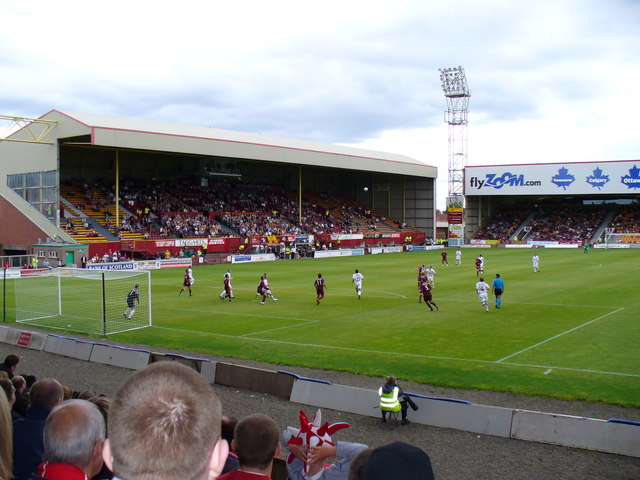 Fir Park, Motherwell. Motherwell are entertaining Aberdeen (Steelmen vs. Dons). The Dons are in away colours of white - and won 2-0!